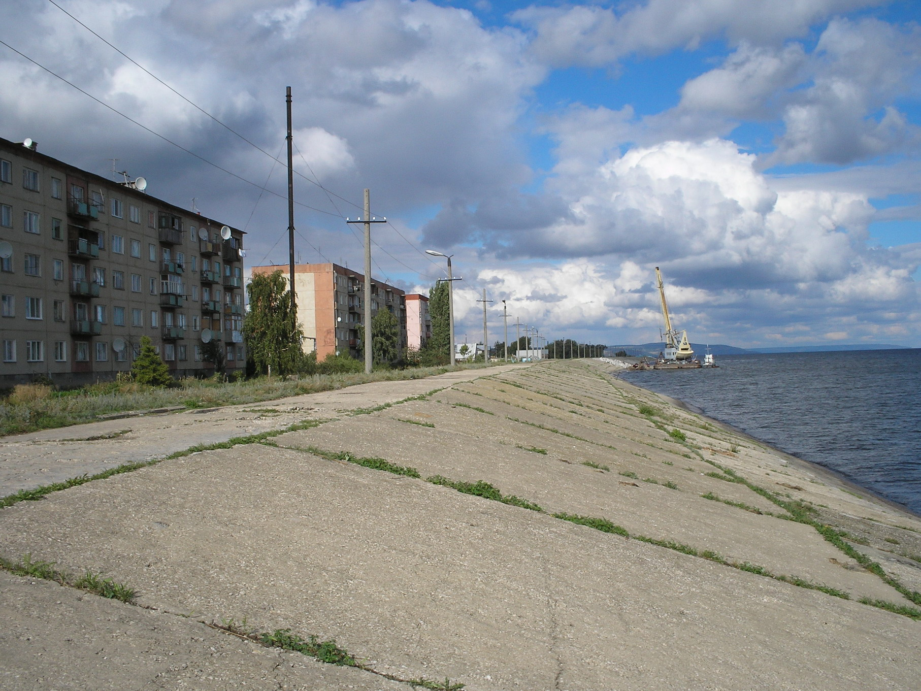 Khvalynsk. Quay of Volga